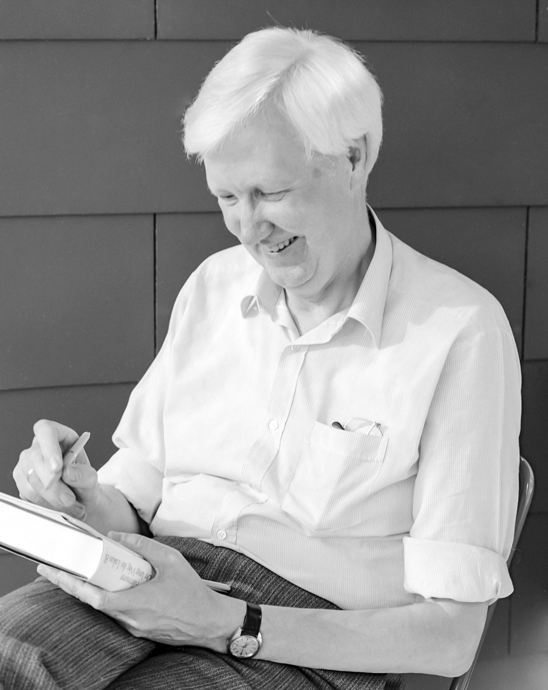 Willi Fährmann (1988)